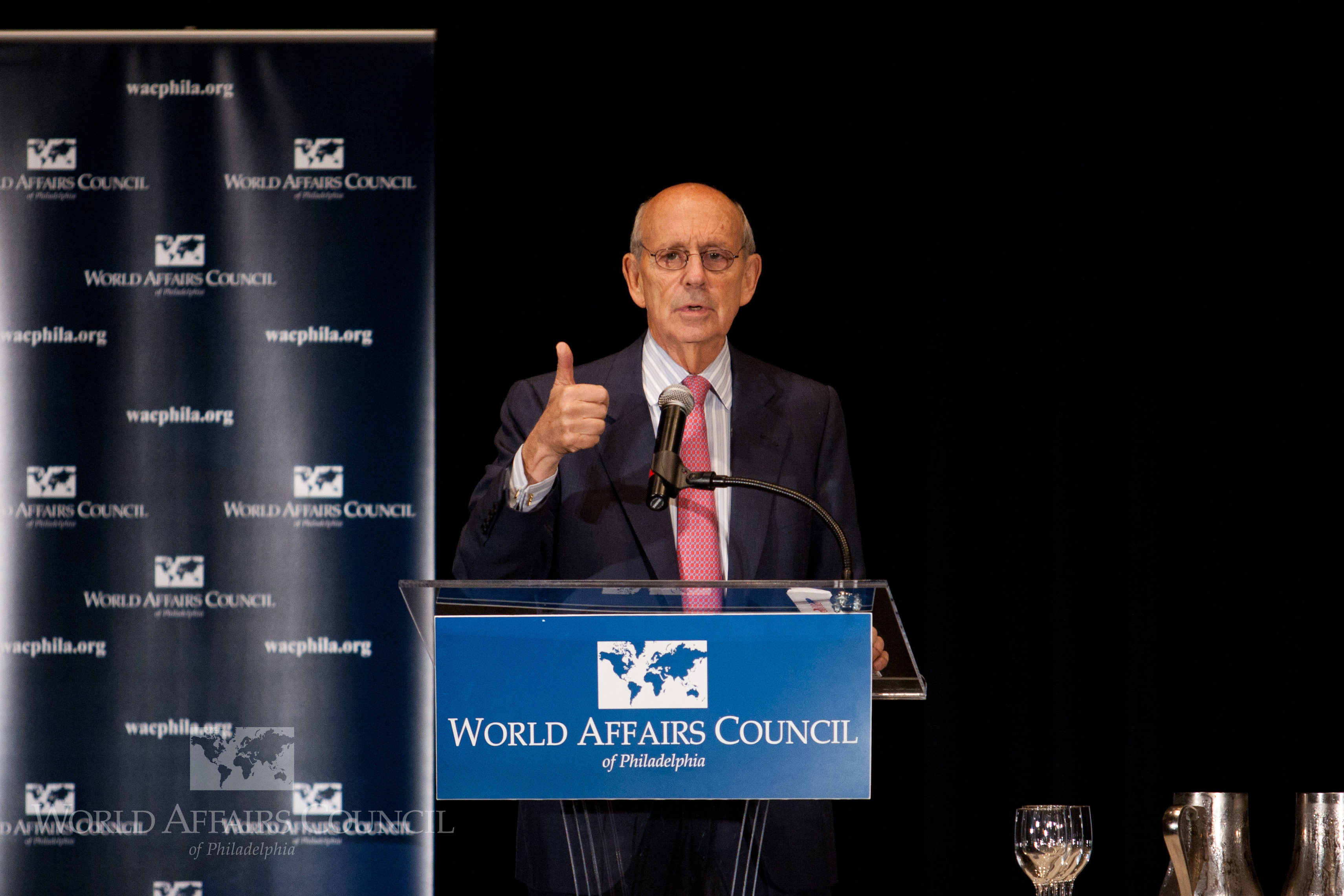 Breyer